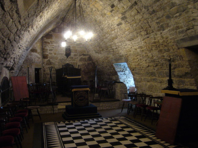 King's Cellar, upper chamber